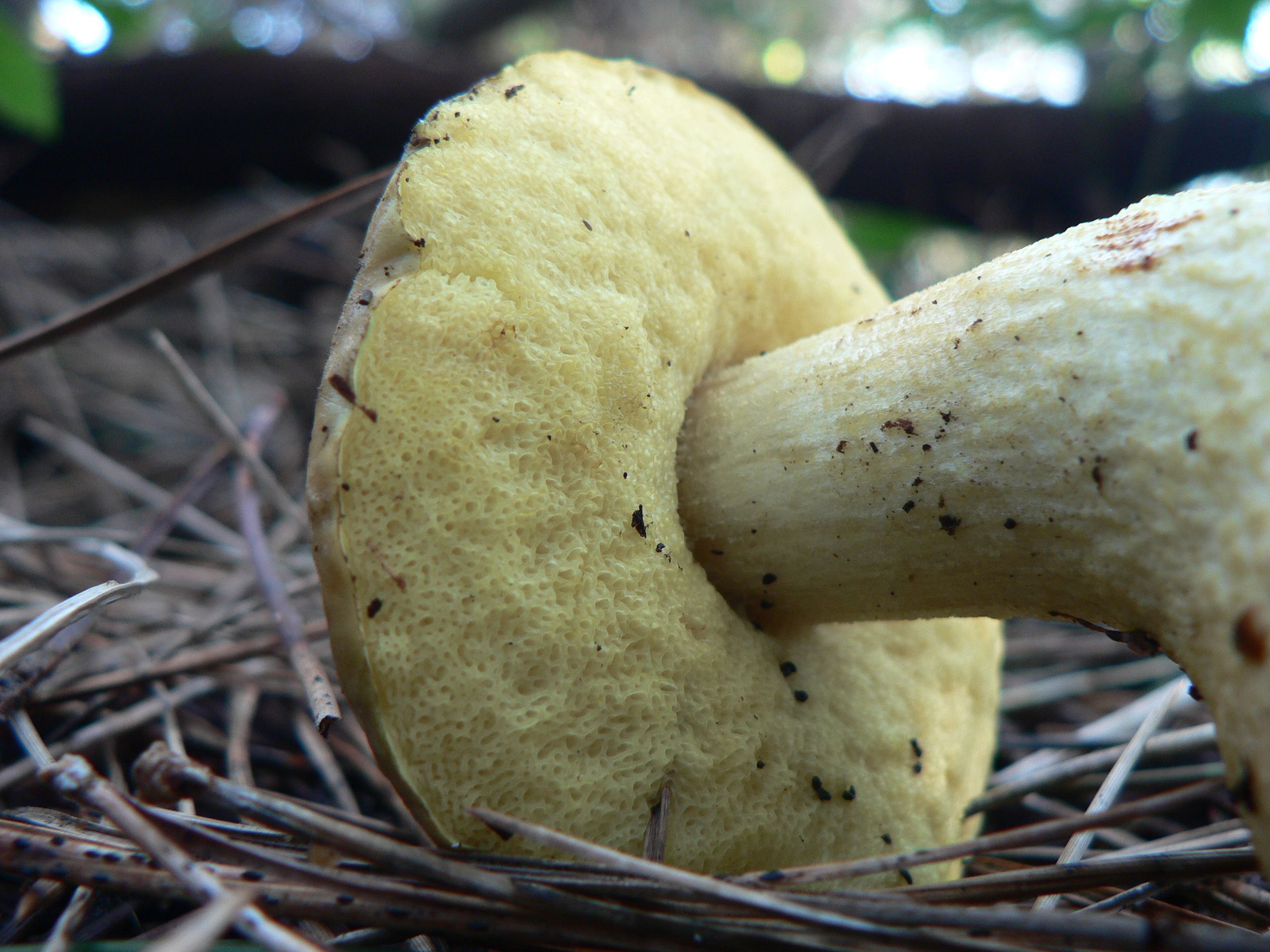 Leccinum Lepidum